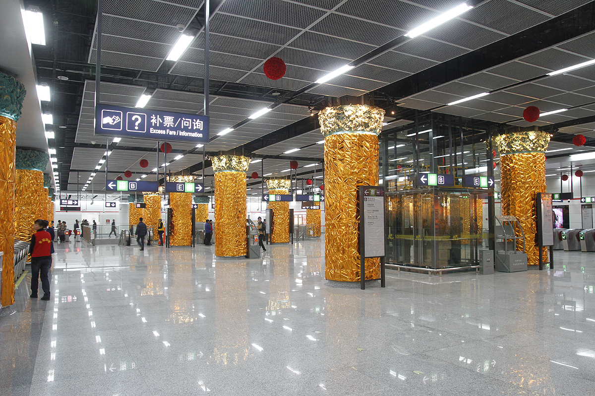 Hangzhou Metro Line 1 Wulin Square Station